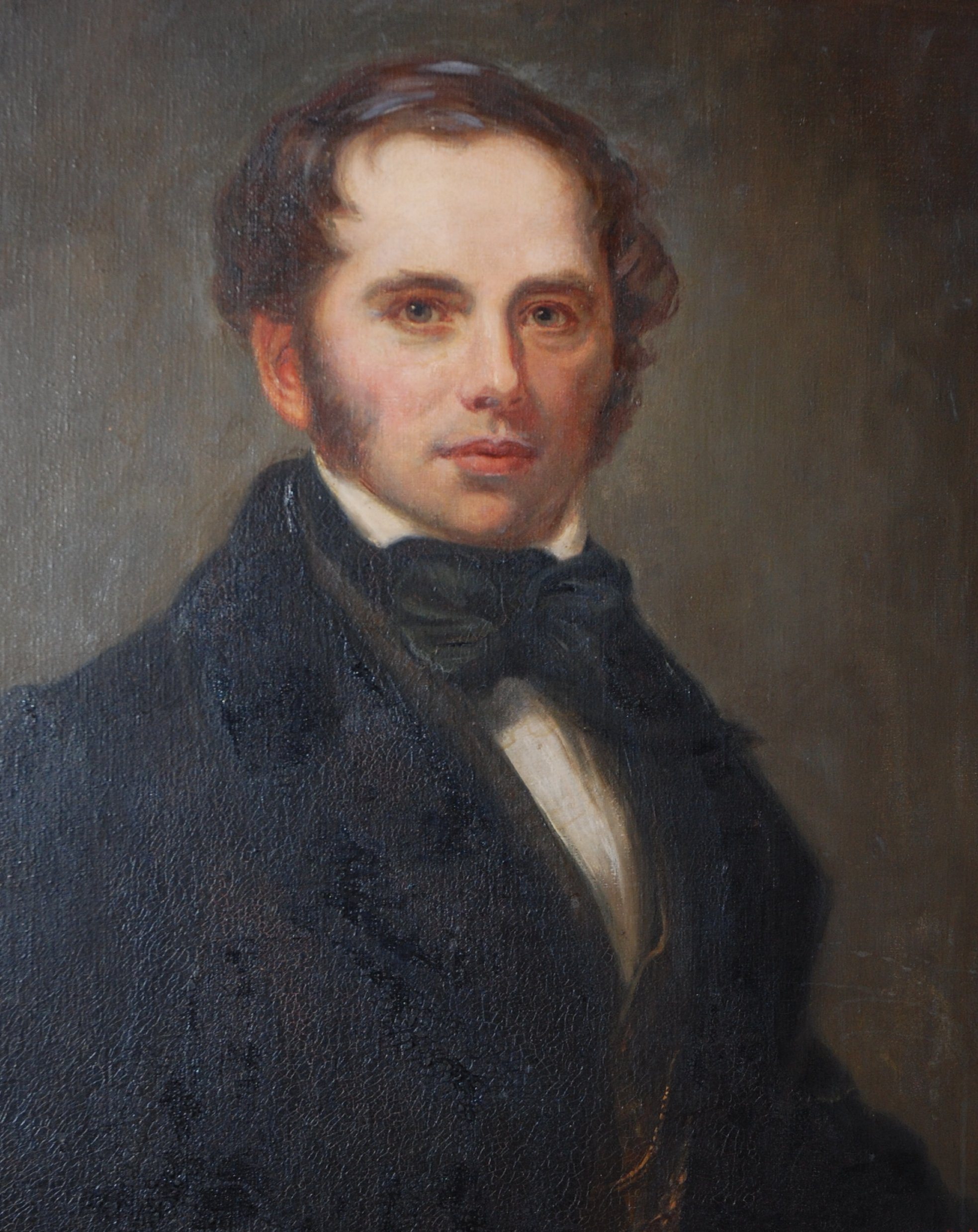 Photograph of portrait of Sir Charles Hastings - artist unknown. In possession of Benedict Hastings.